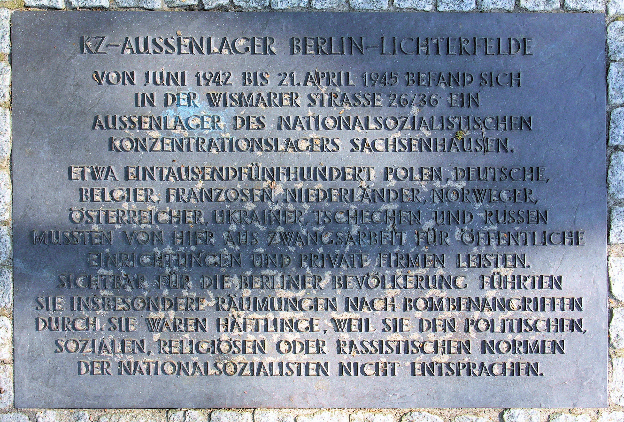 Memorial plaque, KZ Aussenlager Lichterfelde, Wismarer Straße 20, Berlin-Lichterfelde, Germany